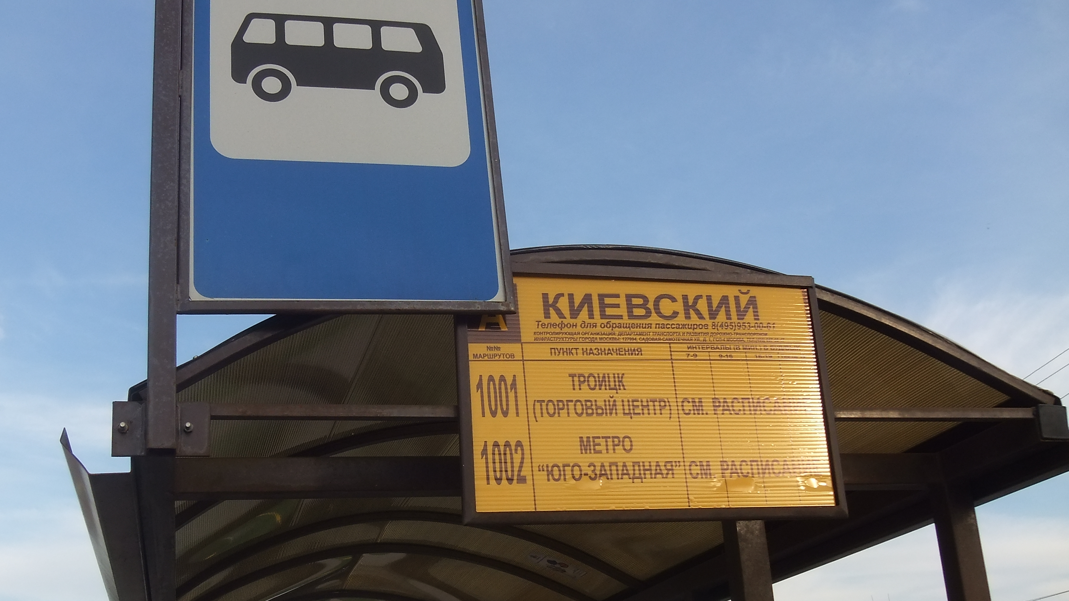 Posyolok Kievskiy bus stop. Mosgortans 1001 and 1002 routes.